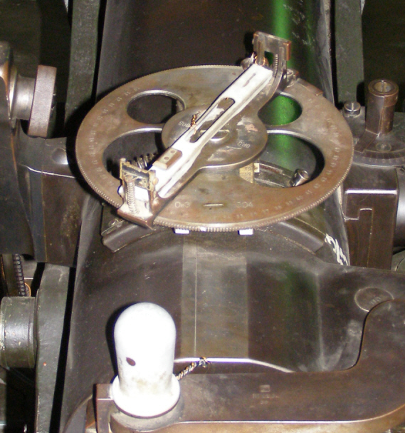 1904 Russian lining plane sight photographed in the St Petersburg Museum of Artillery and Engineer Troops